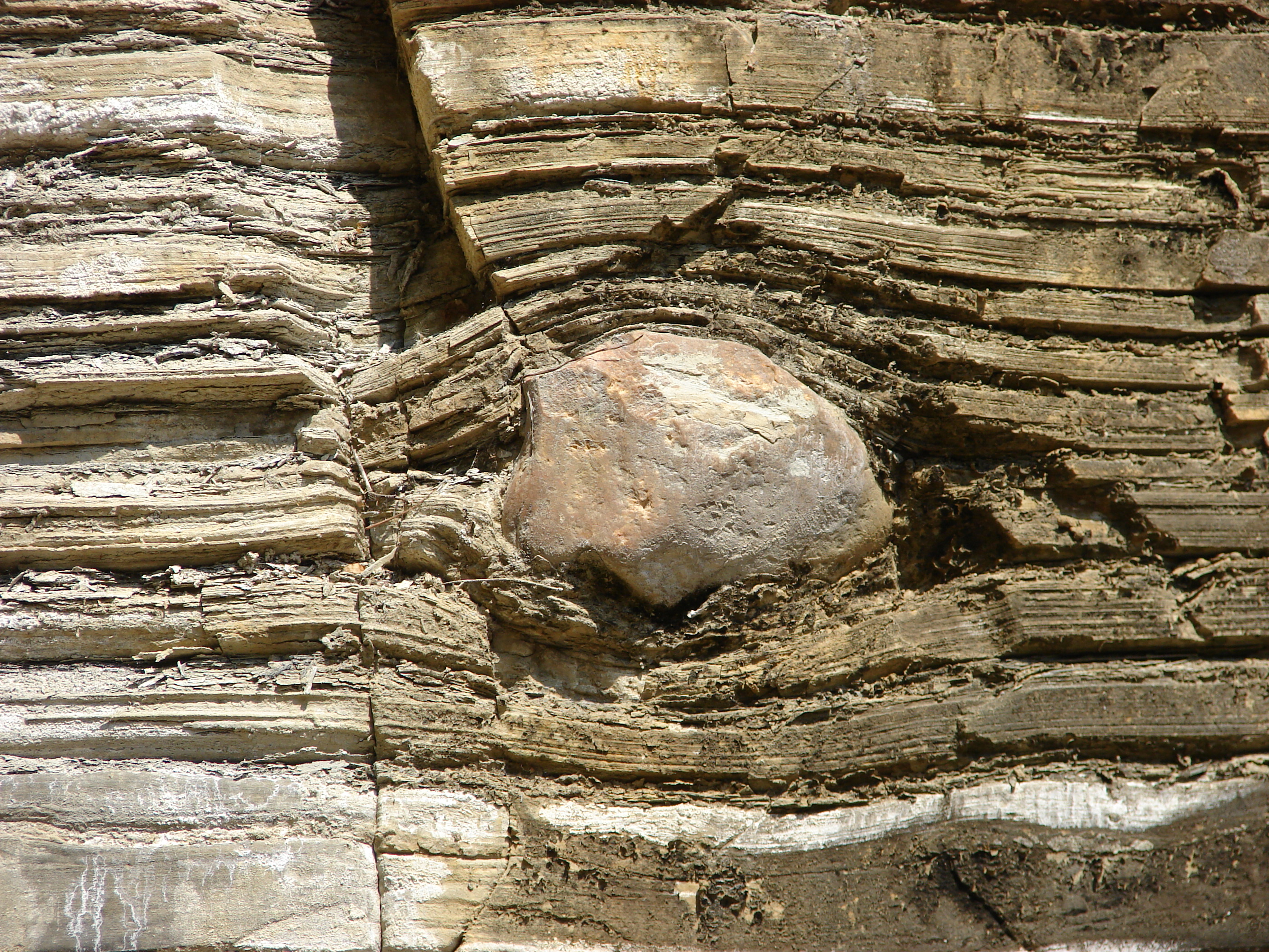 Dropstone of quartzite (about 20 cm diameter). Note the clast's planar faces made by glacial scraping movement and the deformation of beds above and below the pebble. From Itu, Brazil.